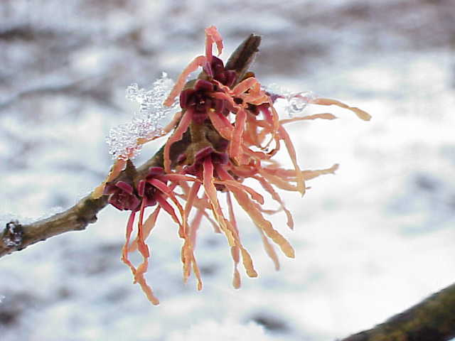 Species: Hamamelis mollis Family: Hamamelidaceae Image No. 7